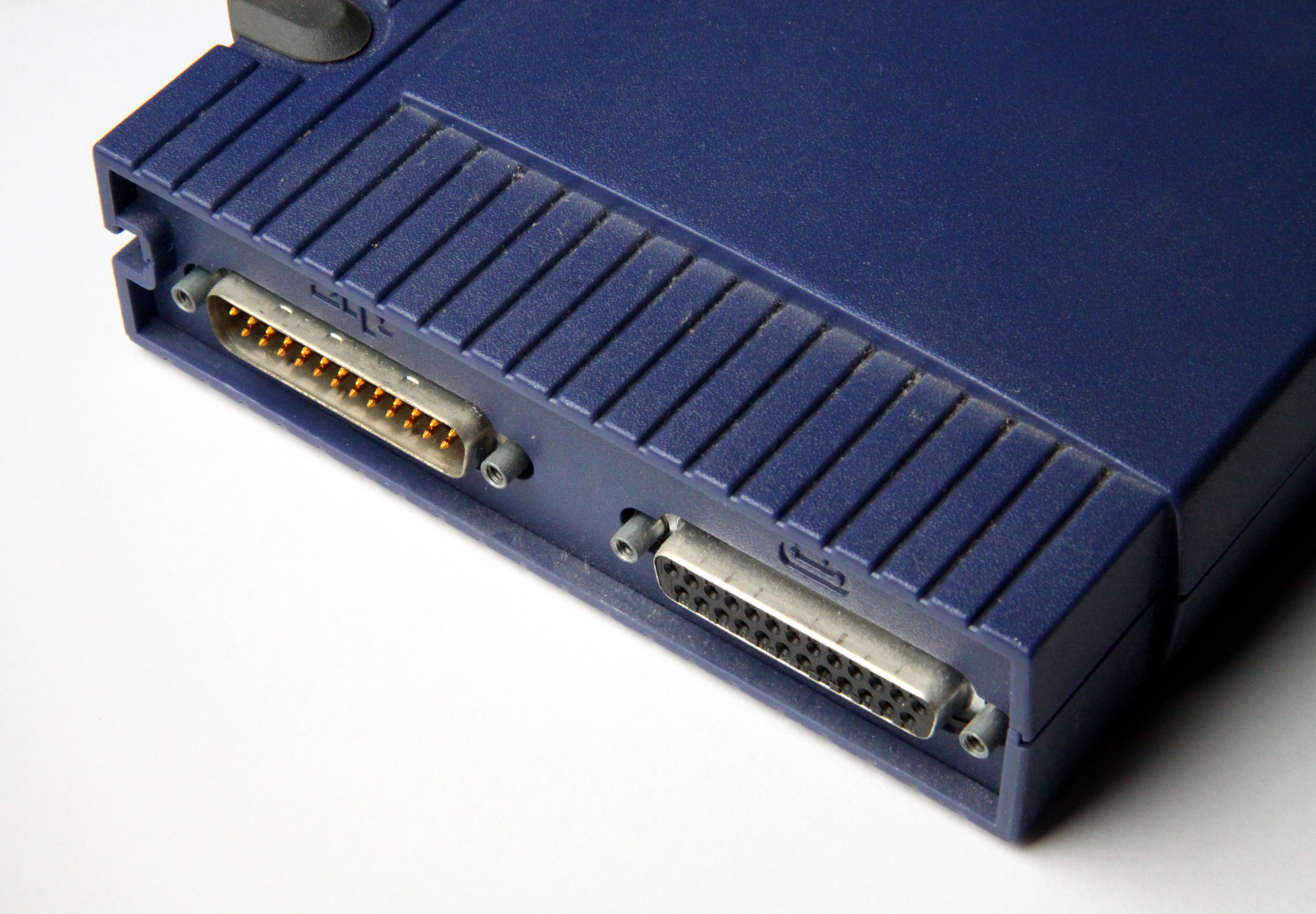 Iomega ZIP-100 Drive (parallel port version). Back with ports for computer and printer.